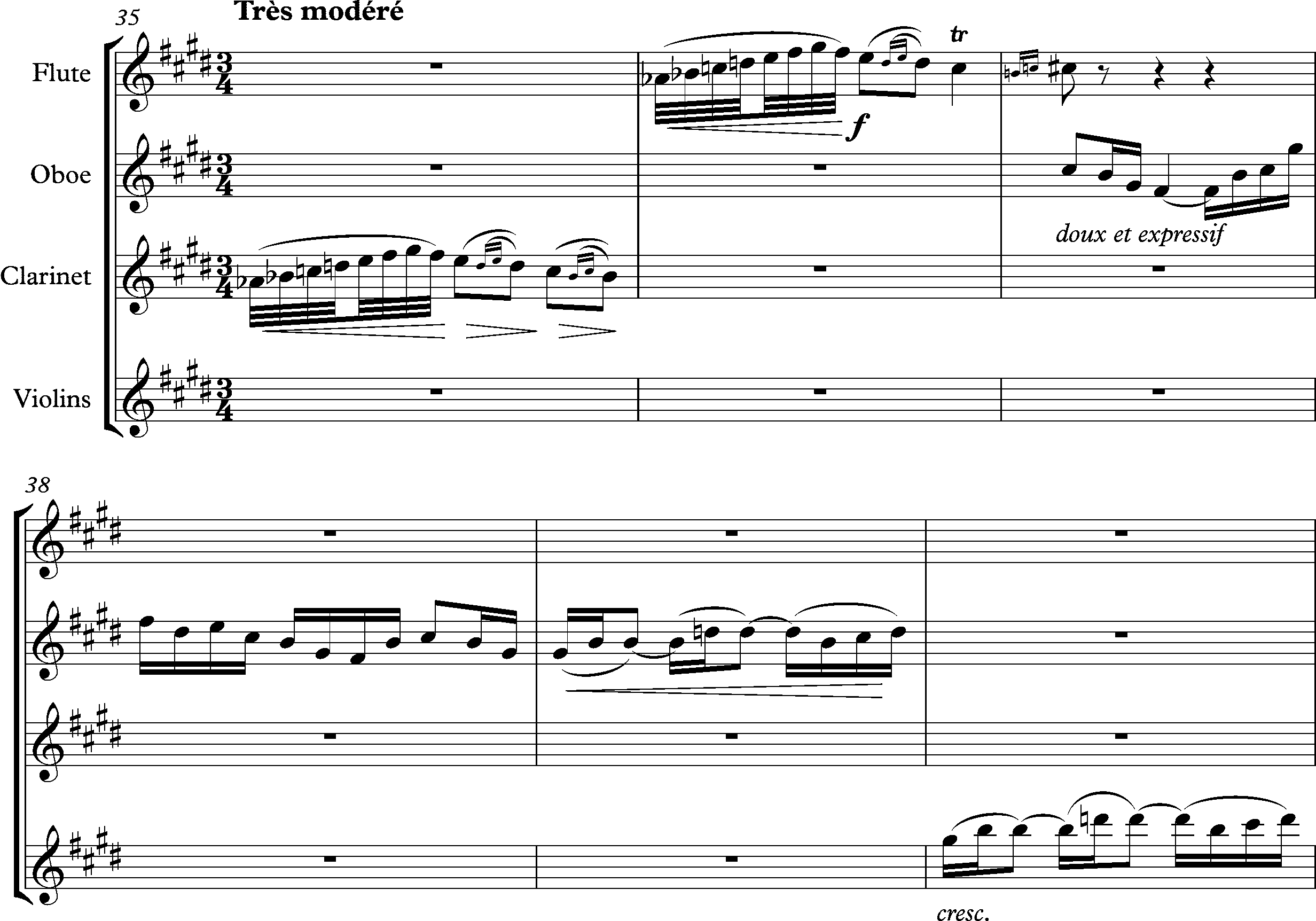 Debussy, Prelude a l'apres-midi d'un faune, bars 35-40